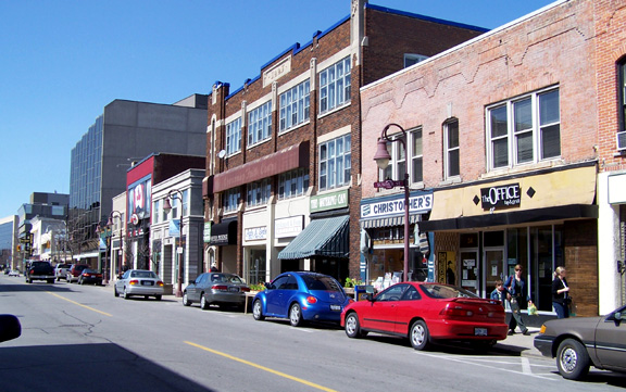 Taken by User:Trappy, April 2006. This is James Street in Downtown St. Catharines, Ontario. I personally took this photograph with a Kodak EasyShare Z740 digital camera, I release this picture to the public.